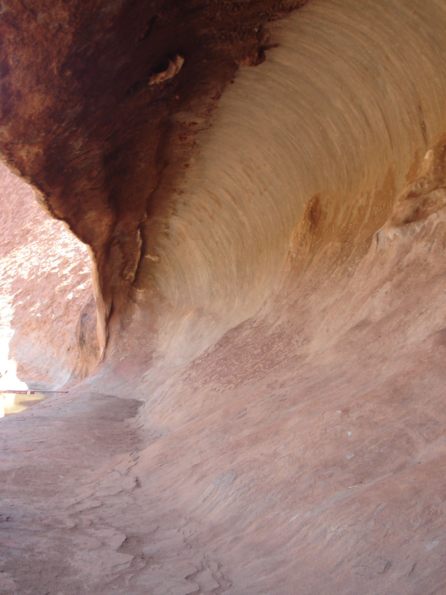 rockshelter at Uluru